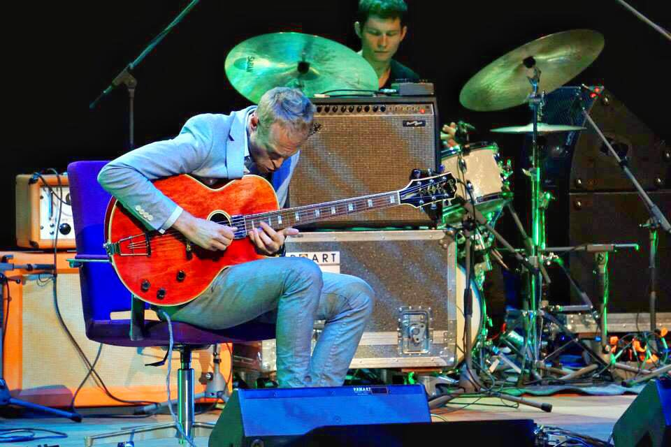 Rotem Sivan in Krakow, Poland